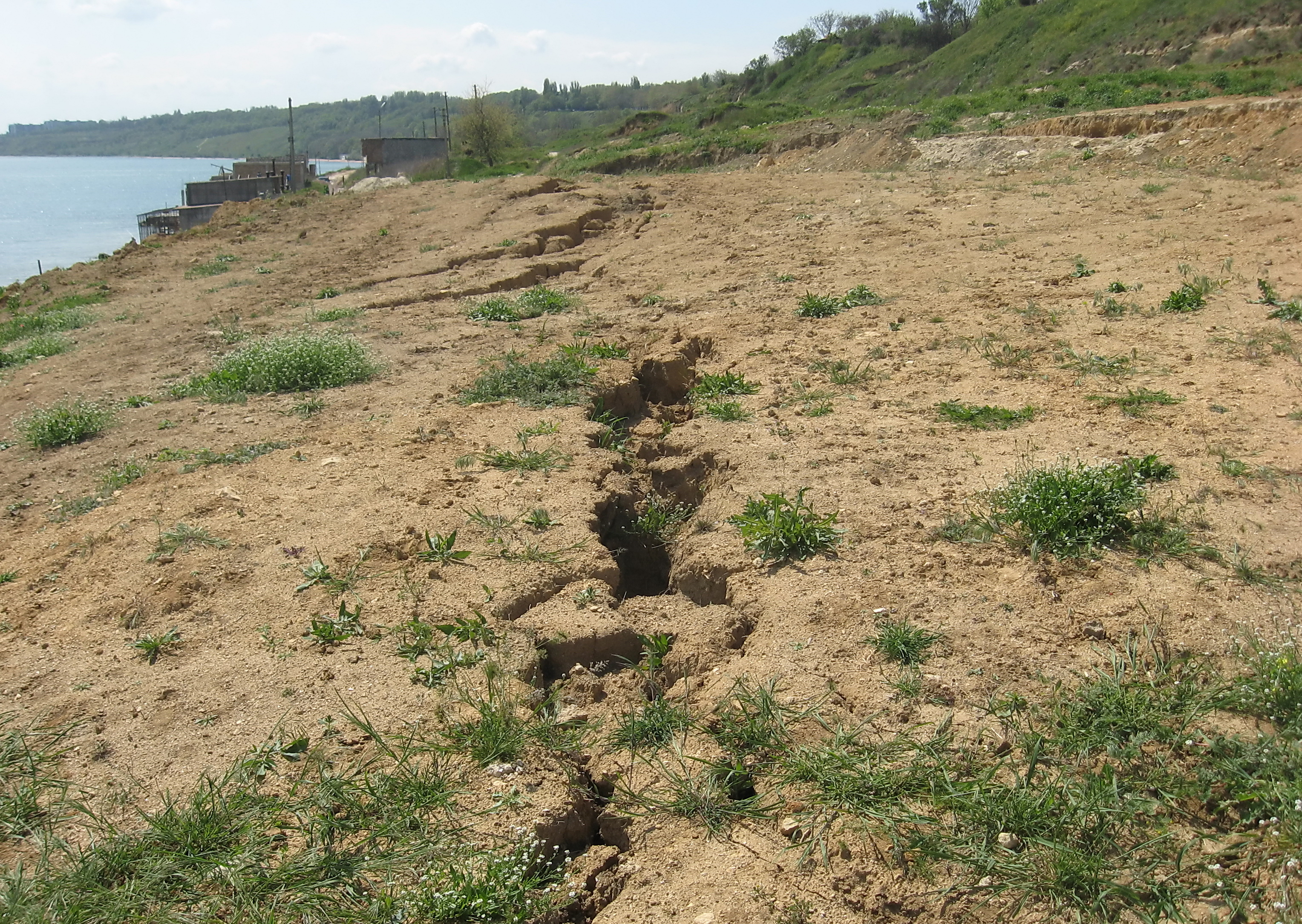 Landslides on the Kerch Peninsula